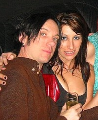 Musician and producer Chris Vrenna with his ex-wife Carrie Borzillo. Cropped from larger original.